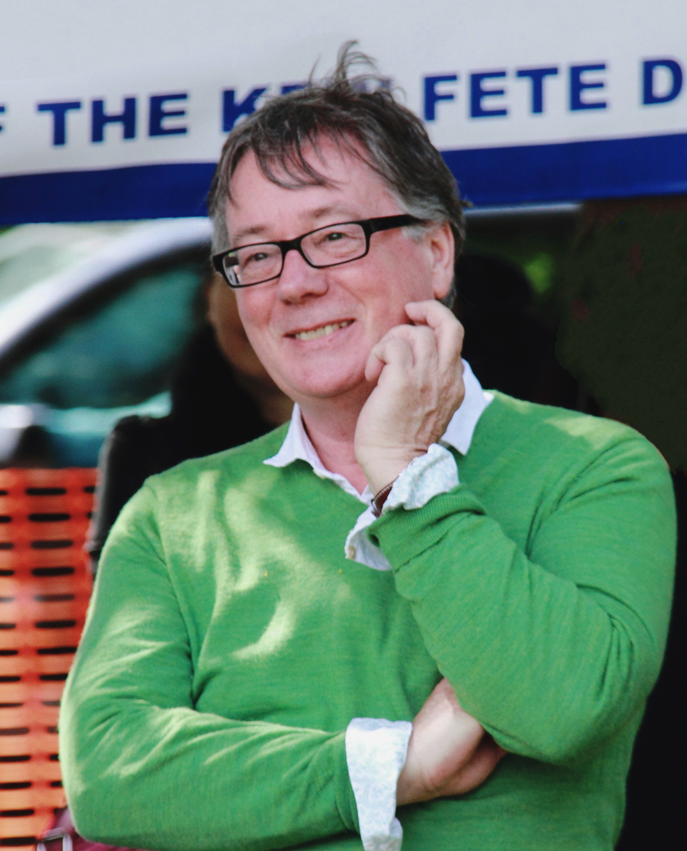 British actor Jeff Rawle at the Kew Fair Dog Show, where he was a judge. The photographer and author of this image is Richard Harris.